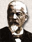 Portrait of Henry E Buermeyer